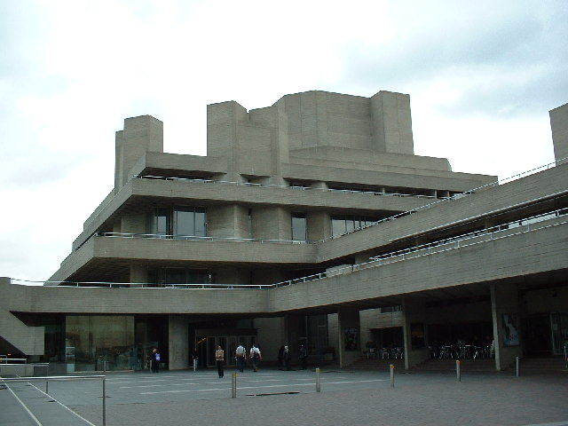 The National Theatre. The National Theatre, located on London's South Bank. The theatre was designed by Denys Lasdun and is in the 'Brutalist' style used for several other buildings on the South Bank.